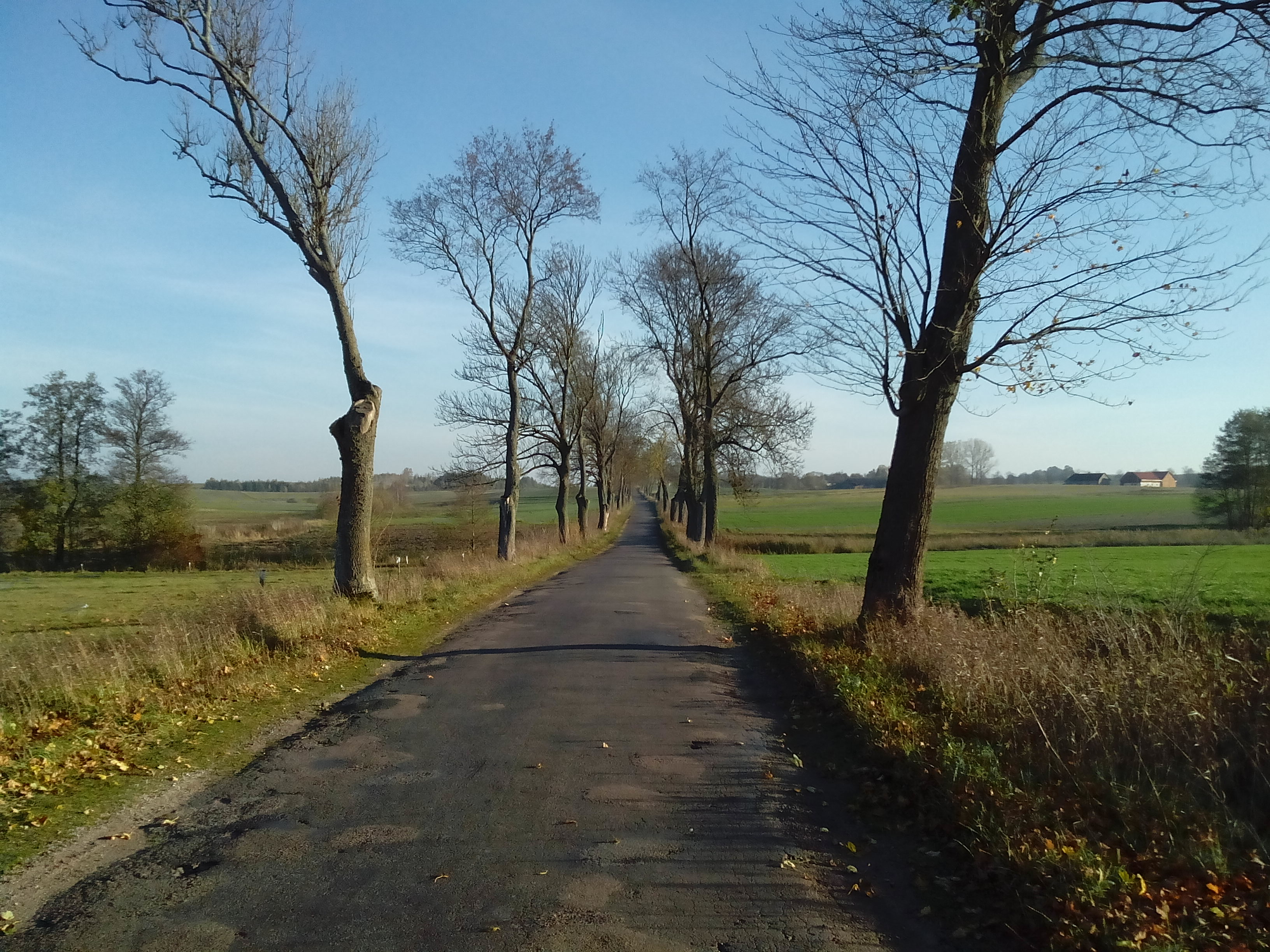 French assault direction at th battle of Hoff 1807 (yr 2014)